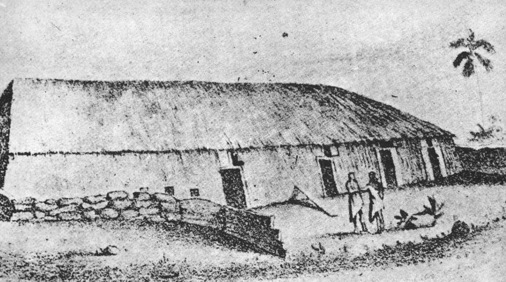 The fourth grass church at Kawaiahao, built in 1828 under the supervision of chiefs and missionaries. Dedicated in July 3, 1829, it was 196x63 feet (50 feet longer than the present church) and seated more than four thousand.